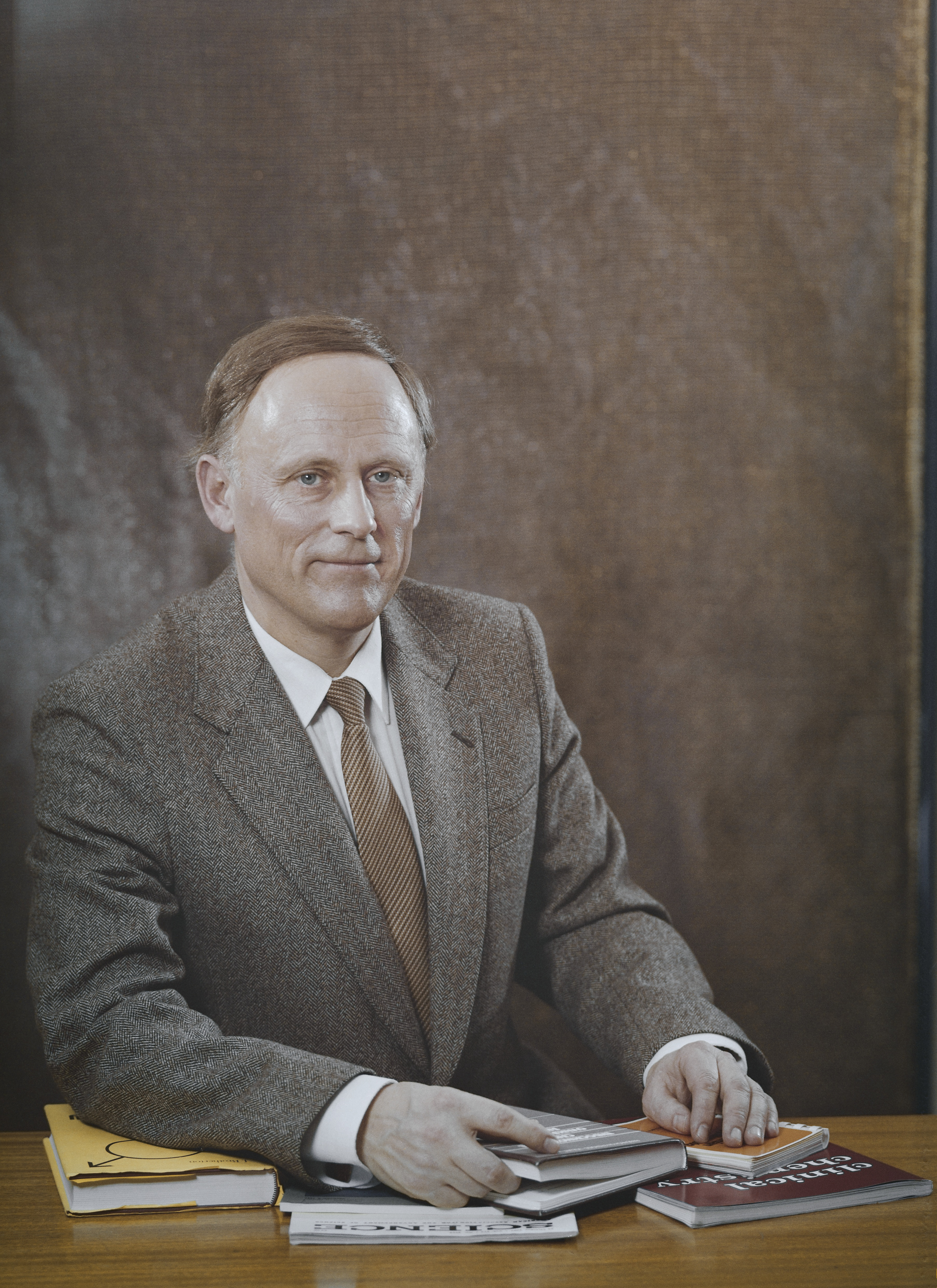 Photograph of the Finnish physician Herman Adlercreutz.